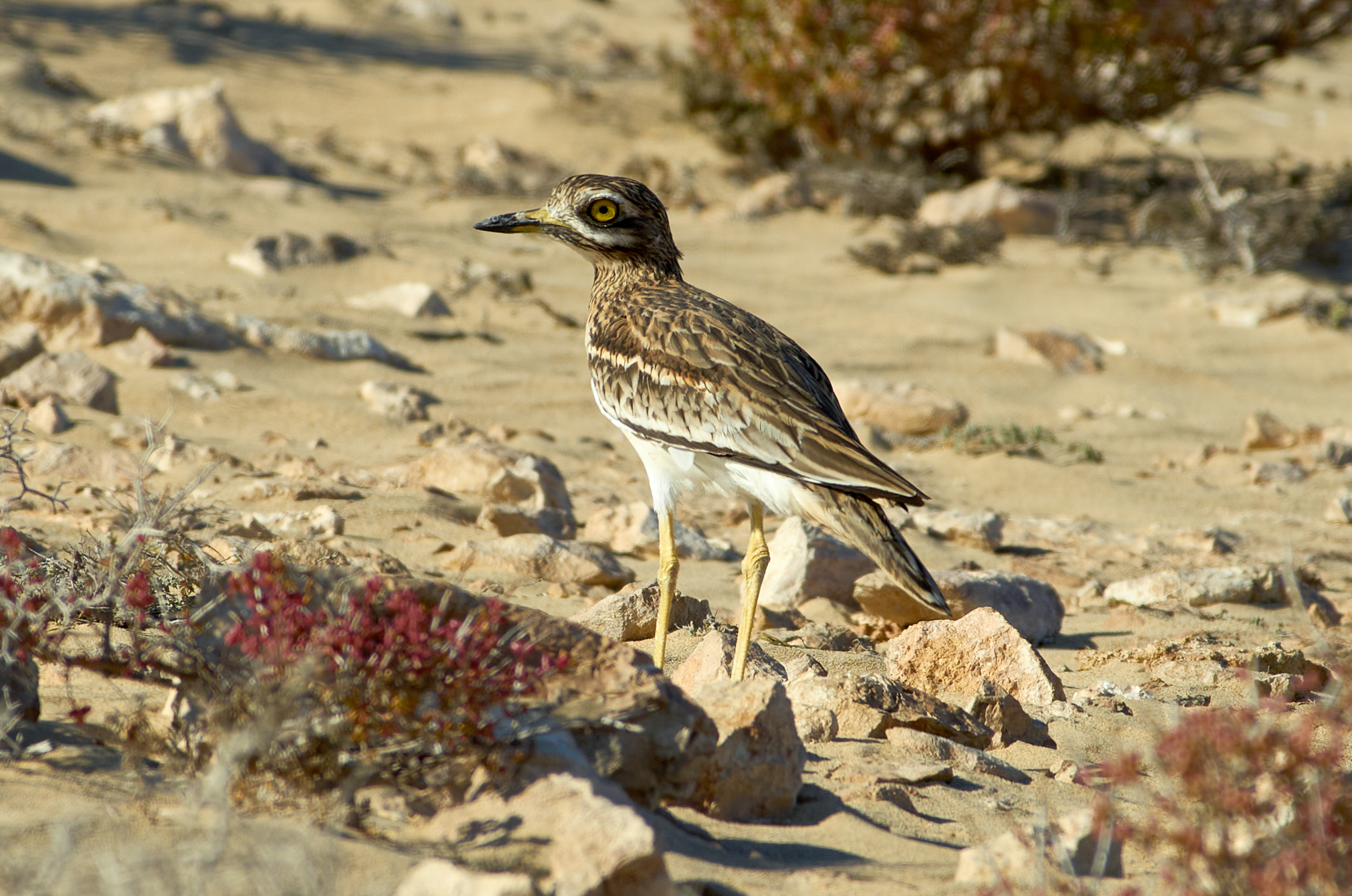 Eurasian stone-curlew, Subspecies Burhinus oedicnemus insularum, desert landscape Costa Calma, Fuerteventura